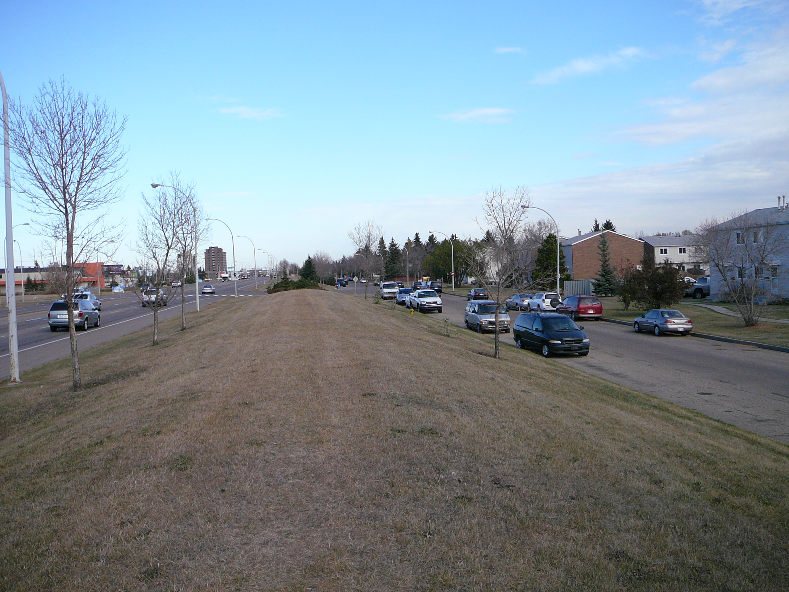 Picture looking north along Mayfield Road in the City of Edmonton, Canada